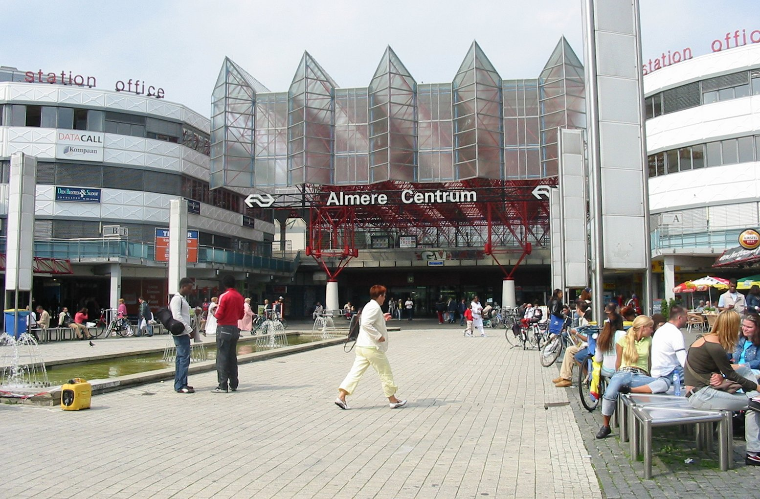 Train station in Almere, The Netherlands picture by User:Ellywa